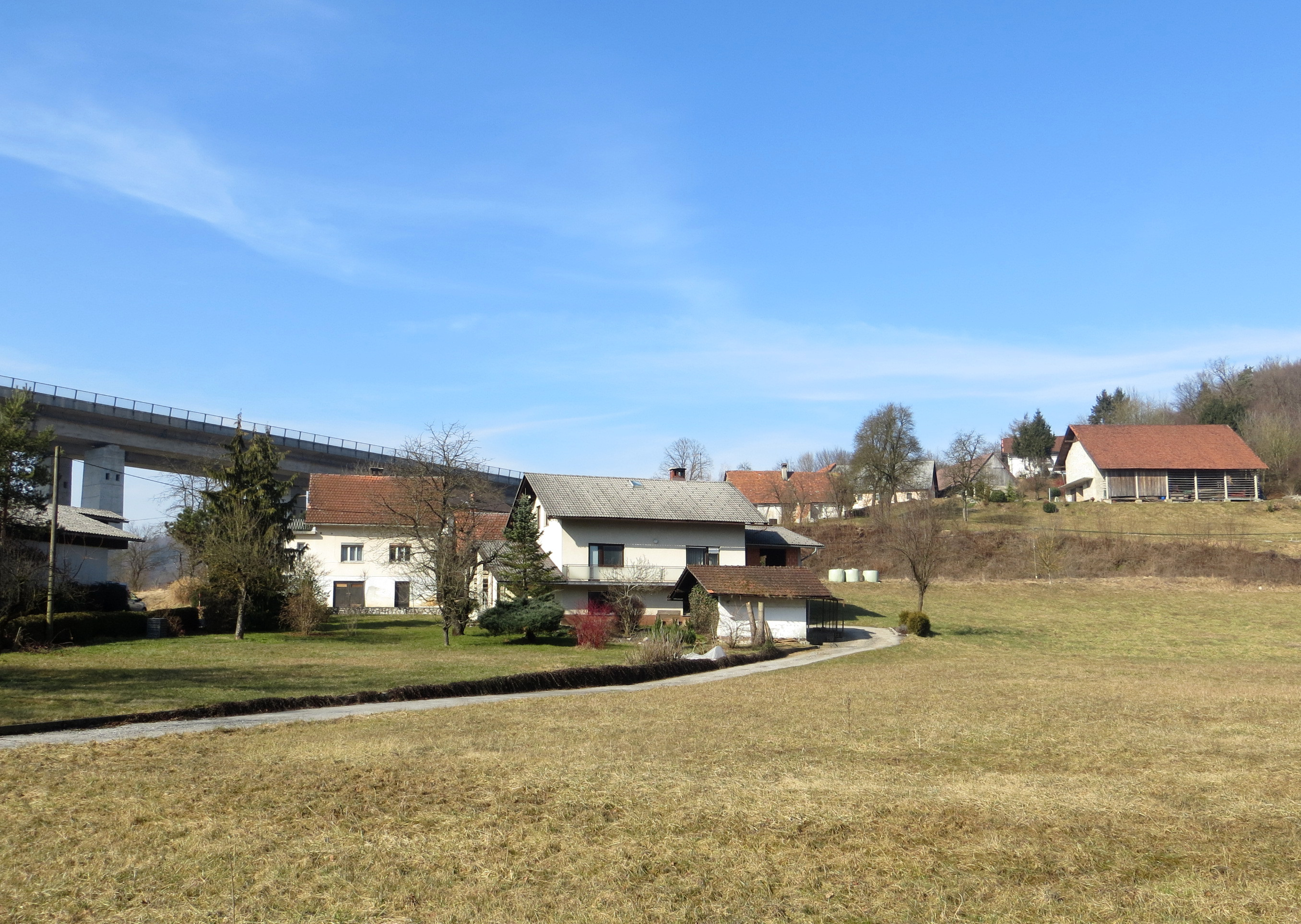 Reber pri Škofljici in the Municipality of Škofljica, Slovenia